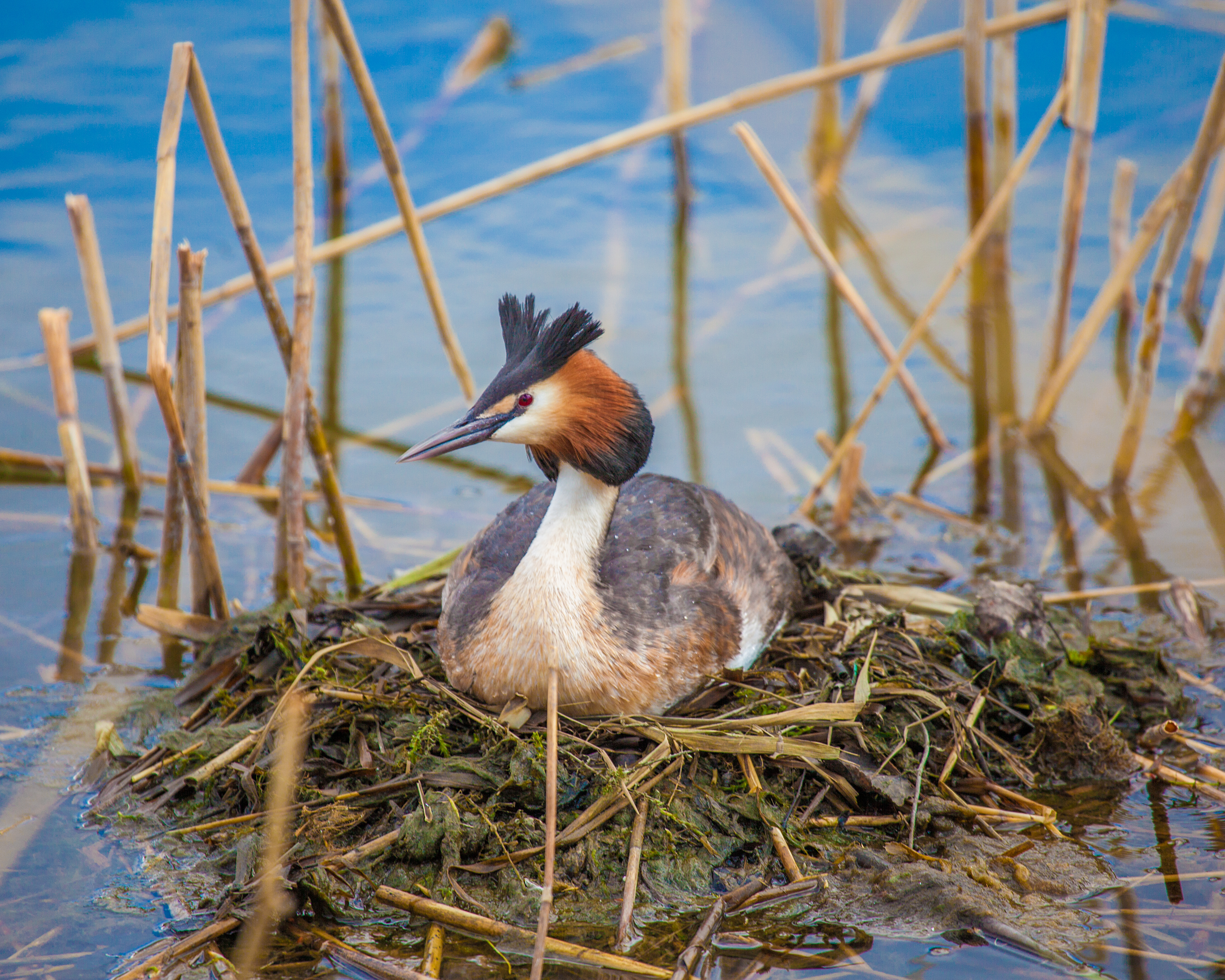 A Great Crested Grebe on a nest by water in Vaxholm, Sweden.